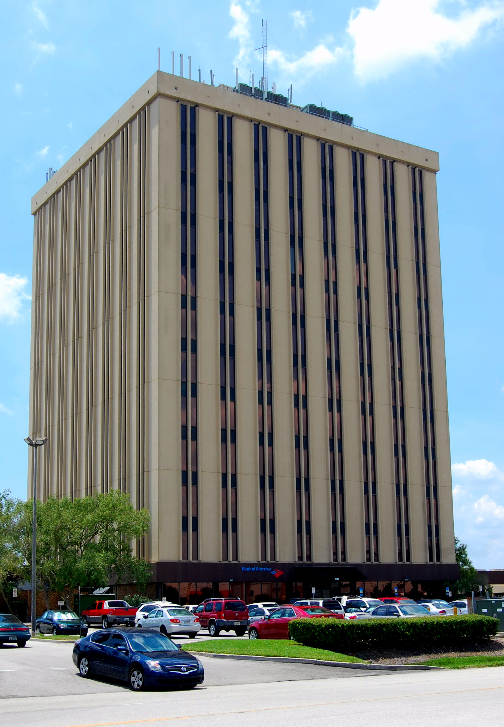 Regency Tower in Jacksonville, Florisa